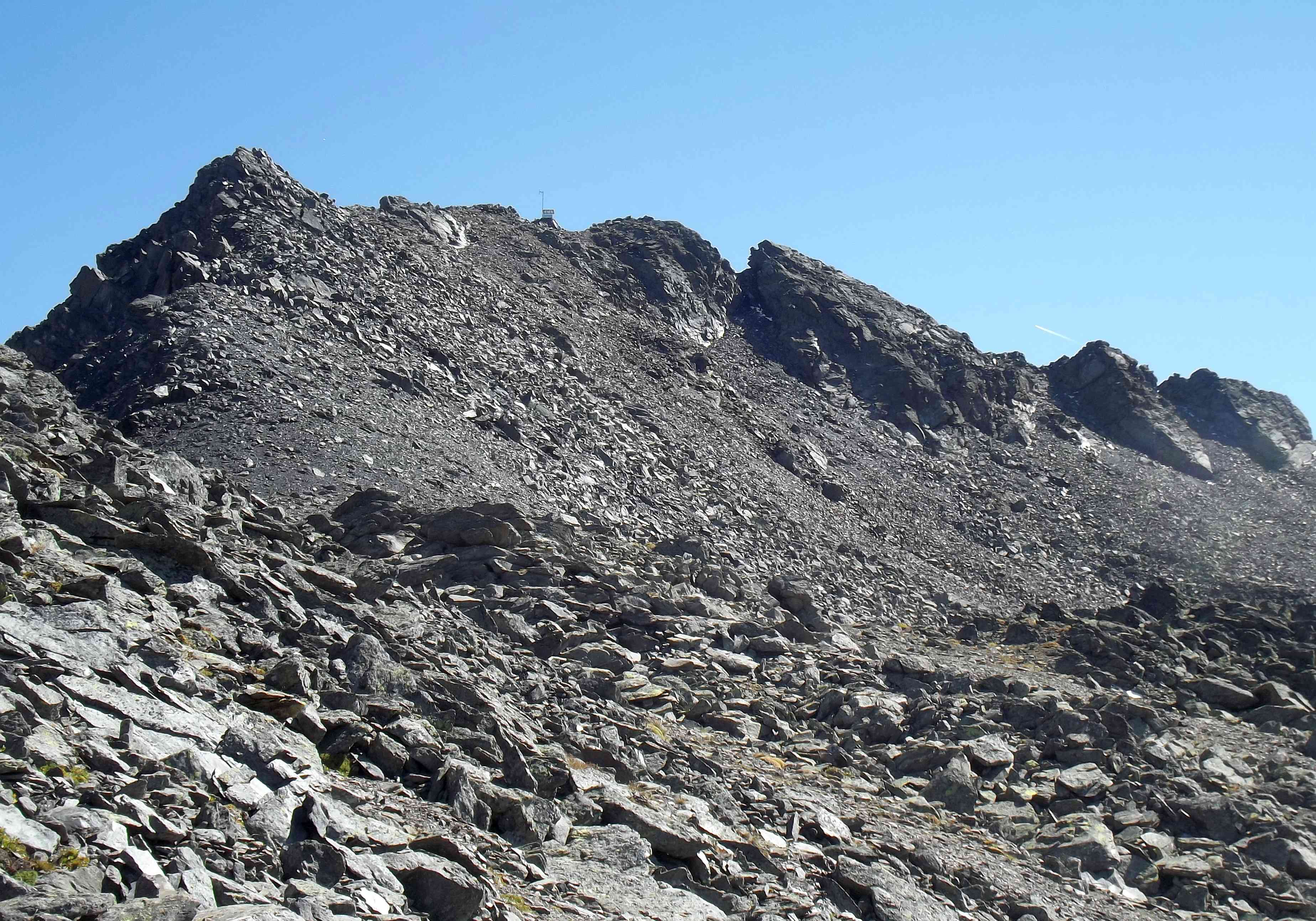 Rocher de la Grande Tempête (Cottians Alps, Névache): NW slopes